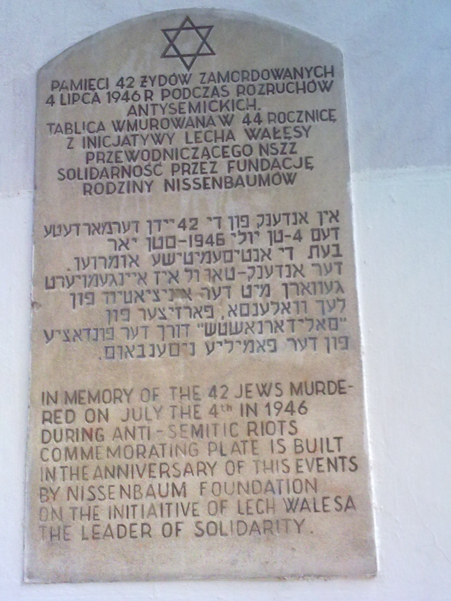 Memorial plaque at the house on Planty 7 in Kielce (Polish - Yiddish - English)